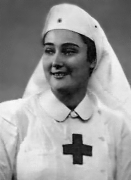 Maria Assunta Lorenzoni, also said Tina, Italian partisan and Red Cross employee.